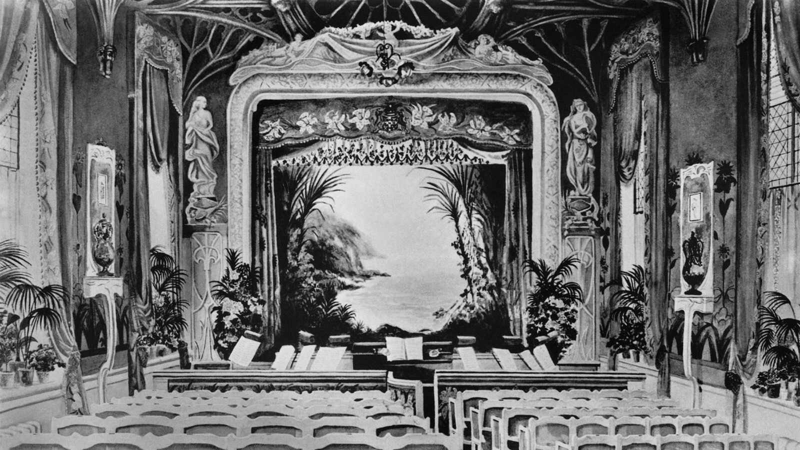 Theatre at Plas Newydd